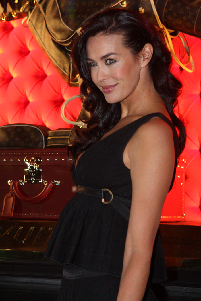 Louis Vuitton New Sydney Store VIP Party